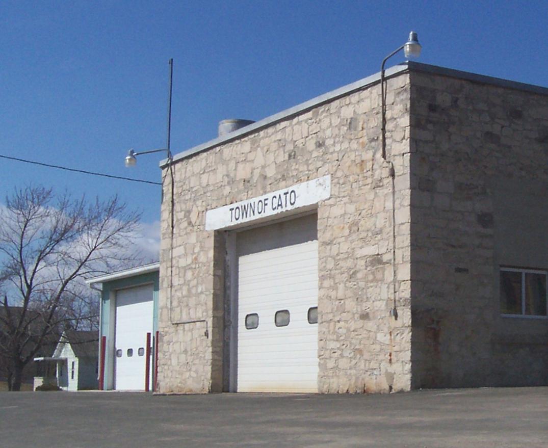 Looking west at the town hall for Cato, Wisconsin, USA in the unincorporated village of Clarks Mills.